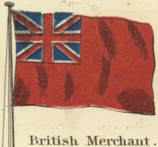 British Merchant. Johnson's new chart of national emblems, 1868.jpg Johnson's new chart of national emblems. Print showing the flags of various countries, those flown by ships, and the "Signals for Pilots." In the top left corner is the "United States" 37-star flag, in the top right corner is the "Royal Standard of the United Kingdom Great Britain & Ireland"; in the bottom left corner is the "Russian Standard" and in the bottom right corner is the "French Standard." The flags on this sheet differ slightly from those on another sheet numbered 4 [top left] and 5 [top right].